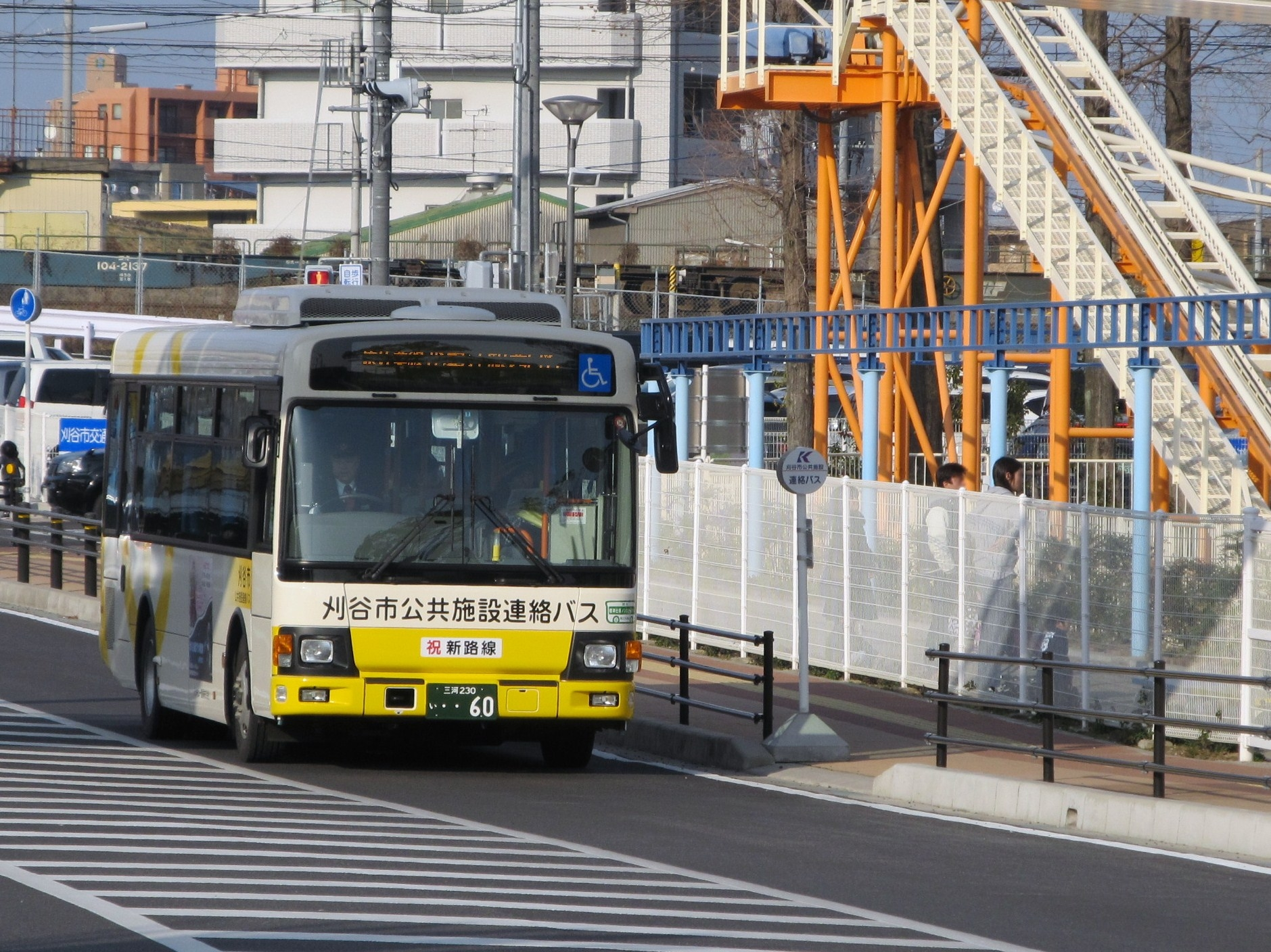 Kariya-shi-Kōkyōshisetsu-Renraku Bus (Kariya City Public facilities Connecting Bus) Hitotsugi Line , Yosami Line Kōtū-jidō-yūen Bus stop